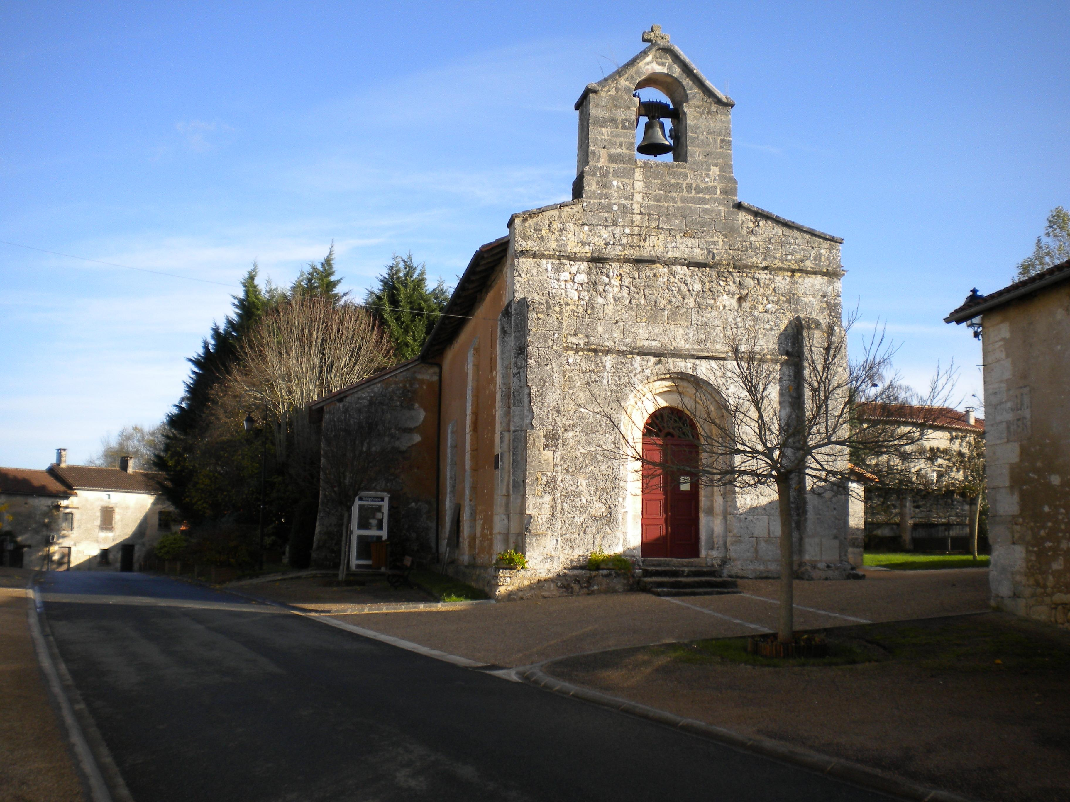 Church in the village of La Chapelle-Montmoreau, Dordogne, France.